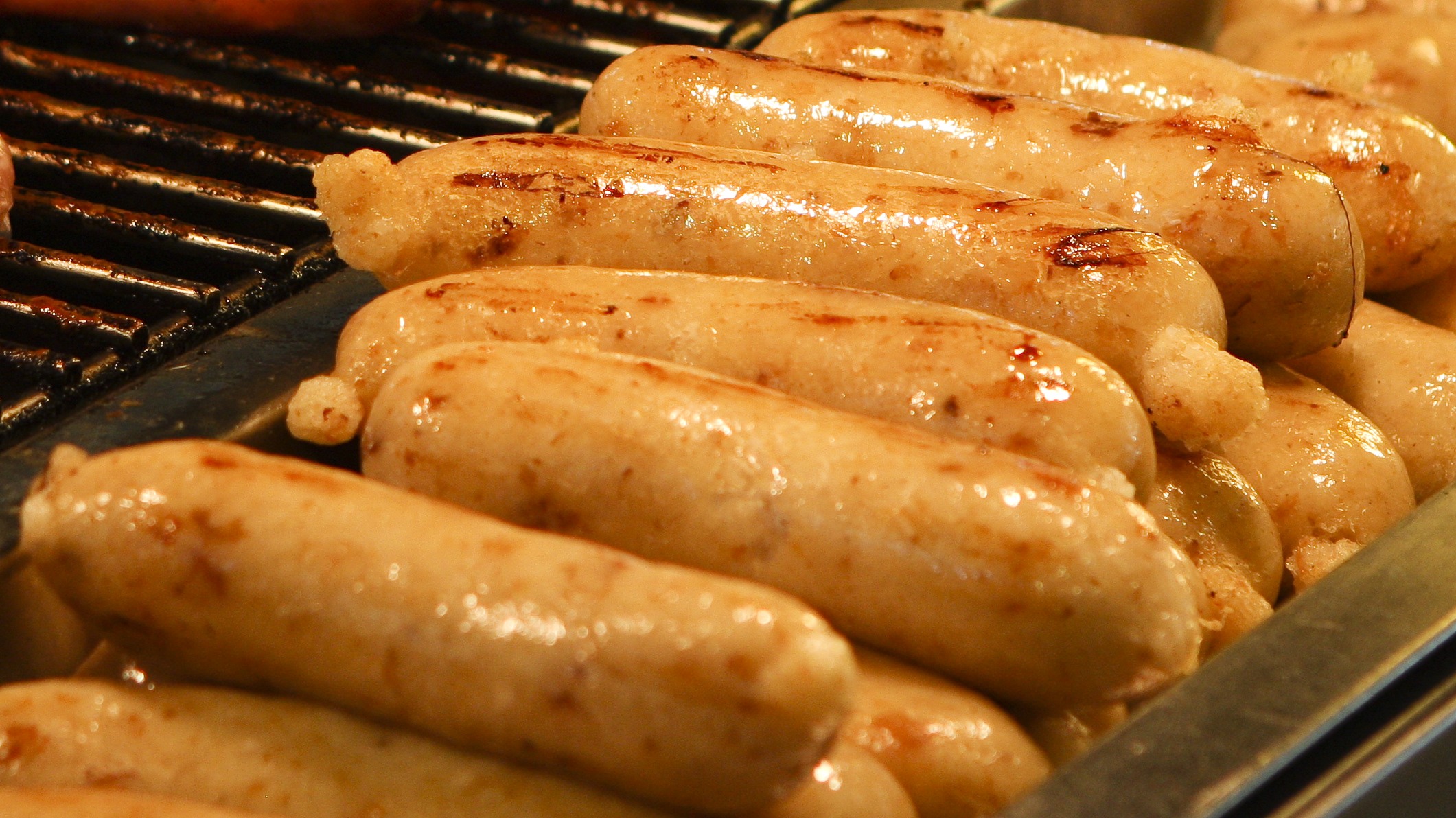 Taiwanese nuomichang (glutinous rice sausage)